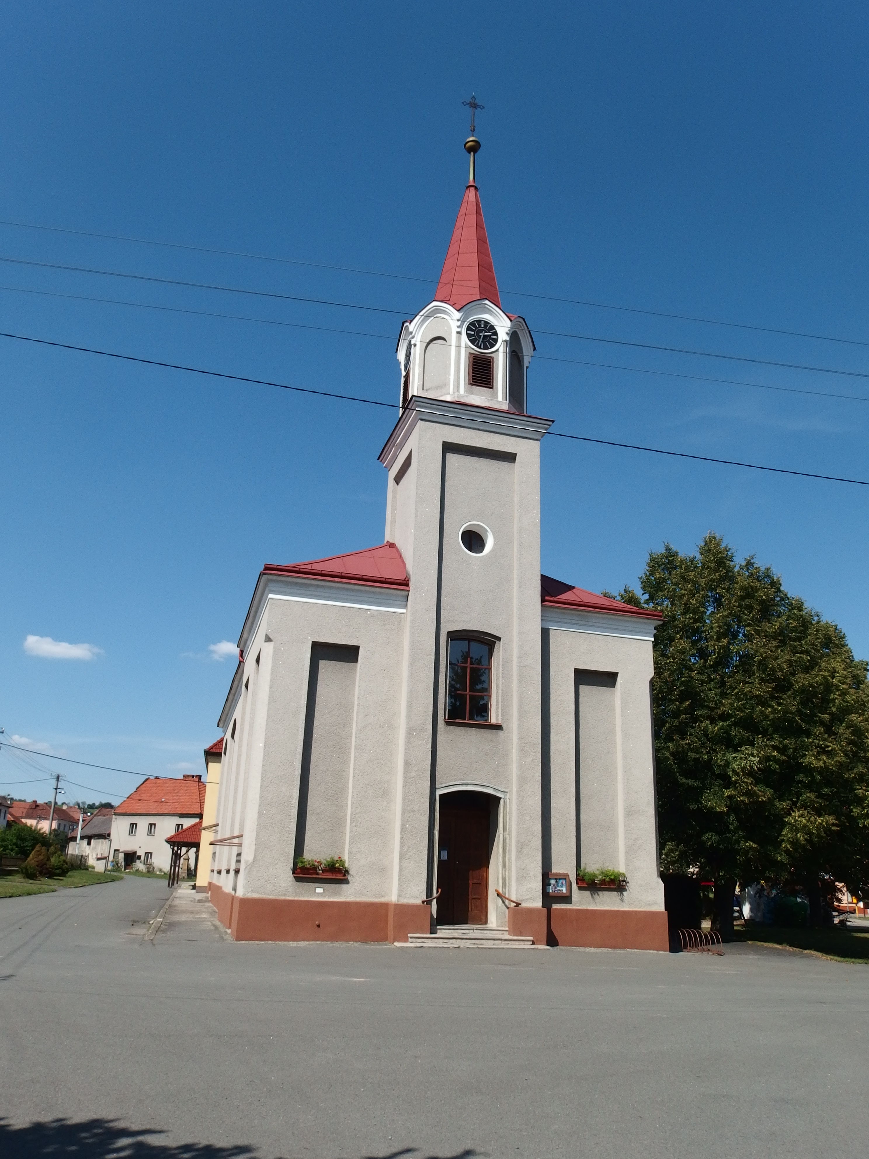 Černotín, Přerov District, Czech Republic. Church of Saints Cyril and Methodius.